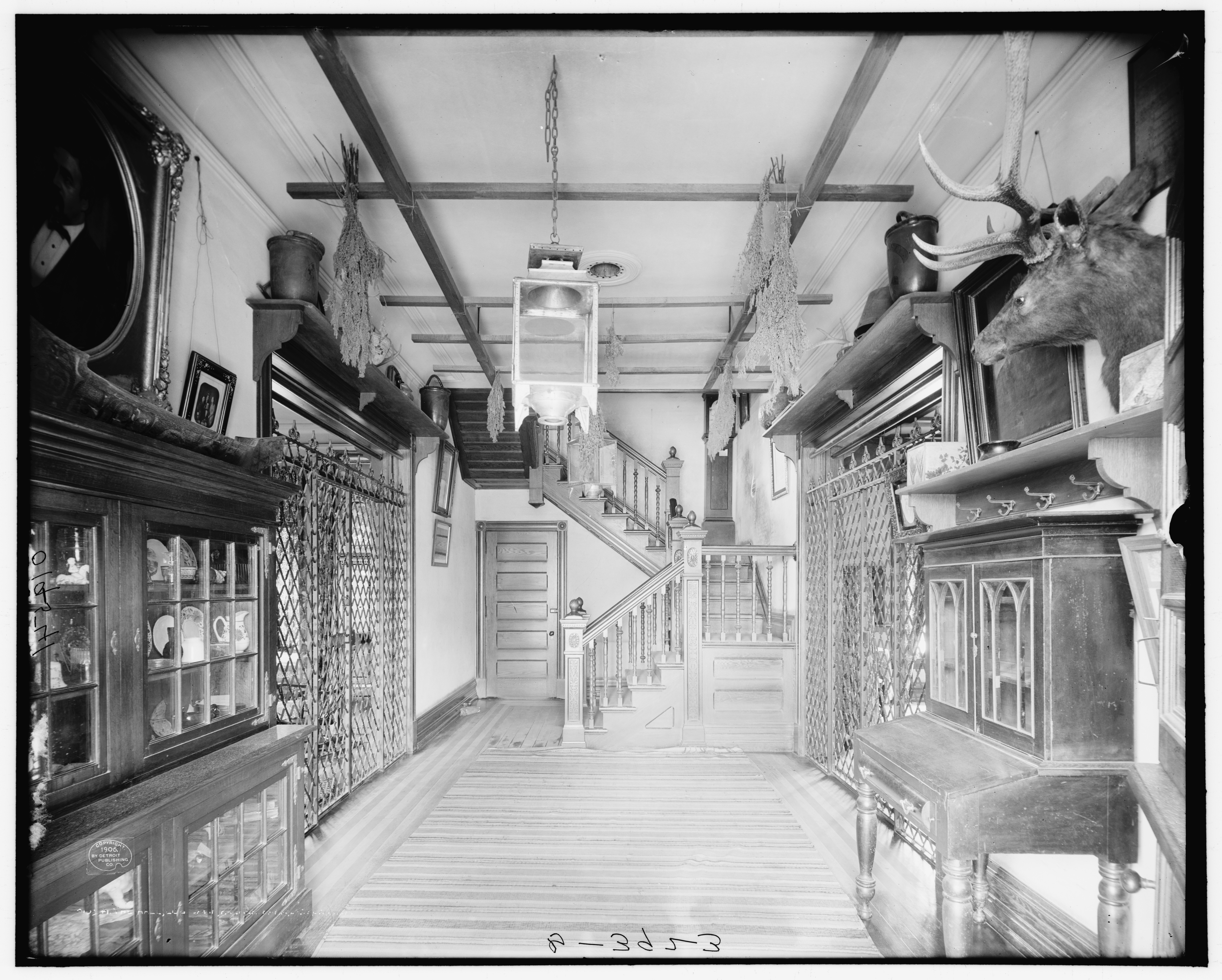 The Hall, log cabin, Palmer Park, Detroit, Mich. c1906